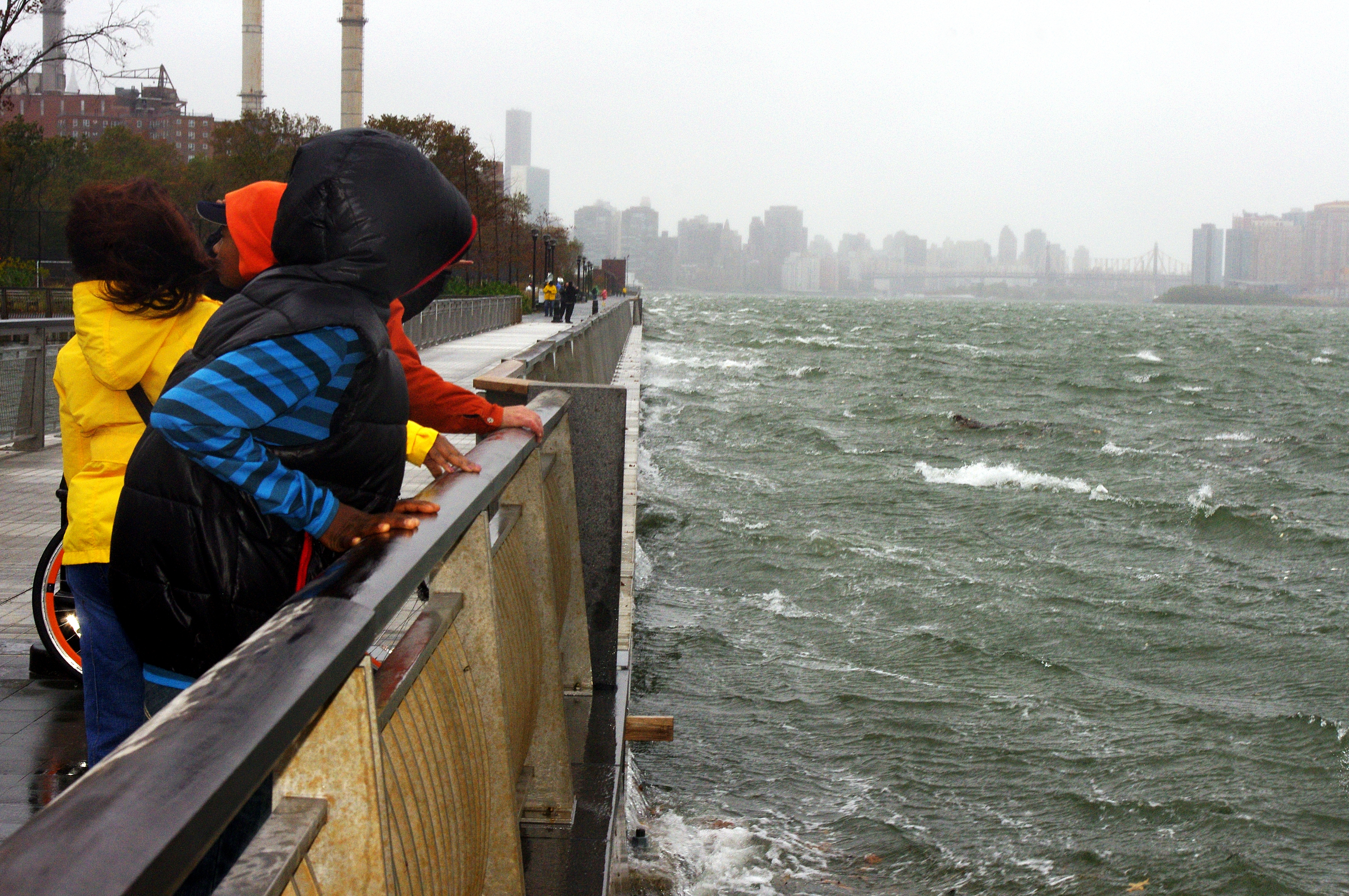 The East River from Manhattan's East River Park swollen to its banks at 11:00 a.m. The Consolidated Edison power substation that later that night would blow up due to flooding and take out power to Lower Manhattan is seen in the background on the left.